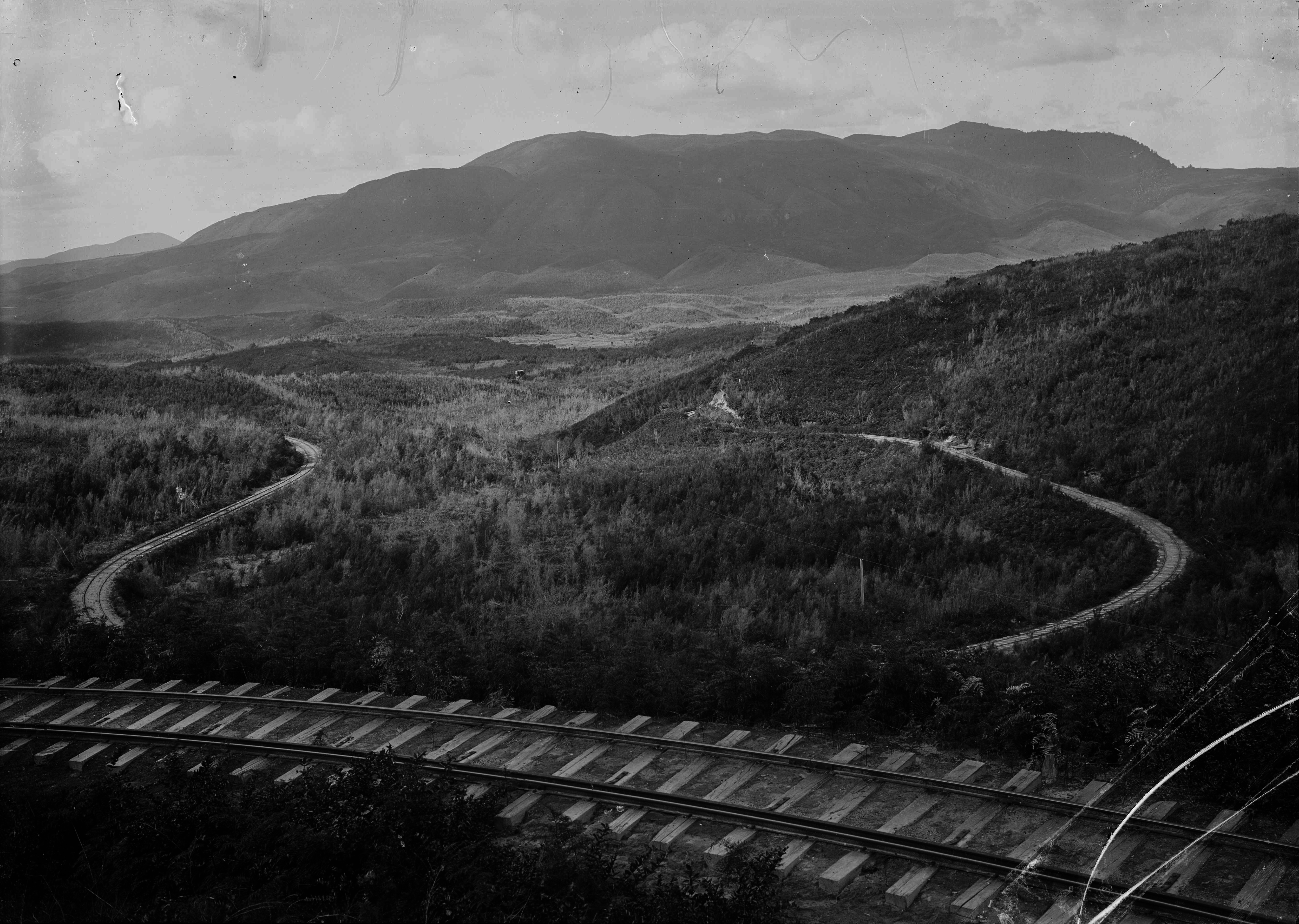 View of railway track belonging to the Taupo Totara Timber Company, showing the "corkscrew" with five different levels of track. Photograph taken by Albert Percy Godber in February 1923.